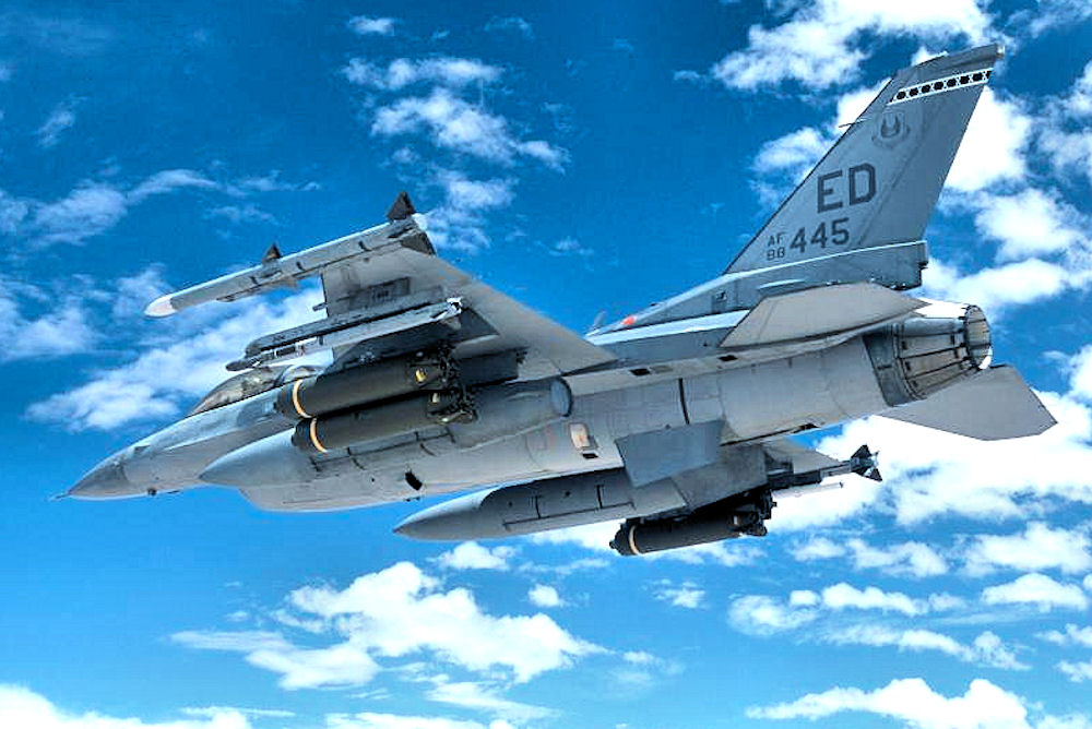 F-16C block 42 #88445 from the 416th Flight Test Squadron flies near China Lake Naval Air Weapons Center, Calif., July 8 during a successful AIM-9X test. The Global Power Fighters Combined Test Force here fired the AIM-9X, marking the variant's first guided launch from the aircraft. [USAF photo by Tom Reynolds ]